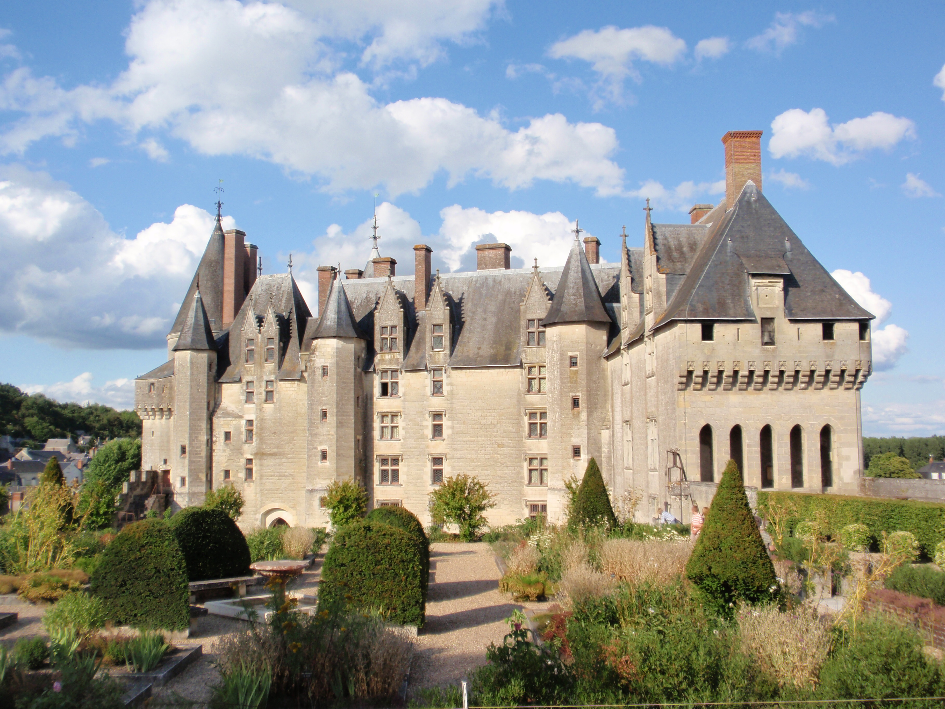 Park facade of the Château de Langeais in the Loire Valley